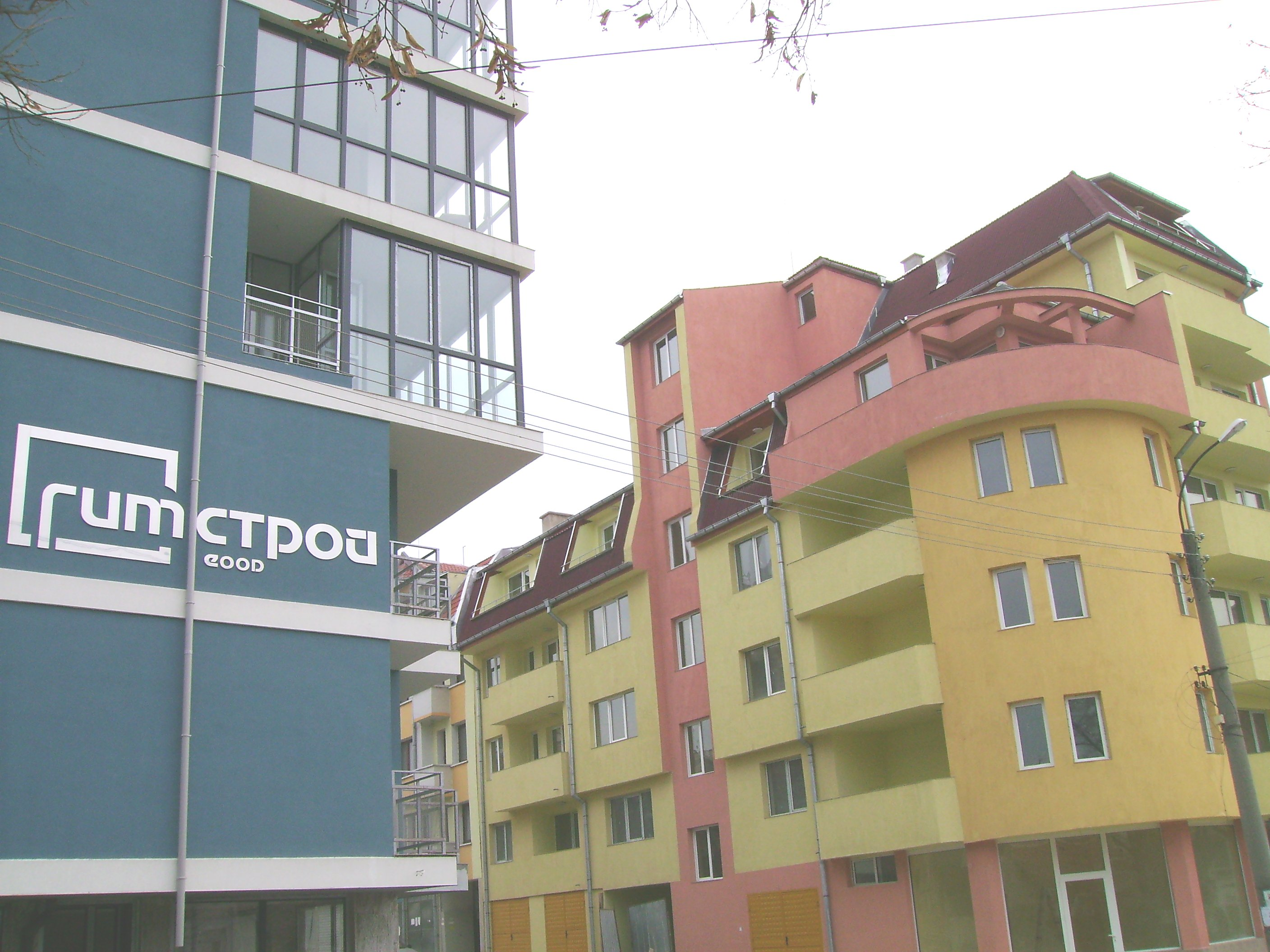 2000s residential buildings in Pleven, Bulgaria